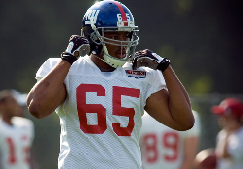 Will Beatty Training Camp 2009